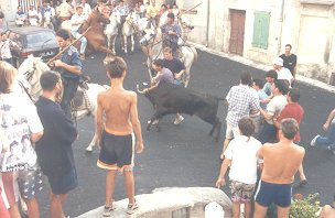 Place de la Fontaine at the top of the Coural. Three yearling bulls were run through the place